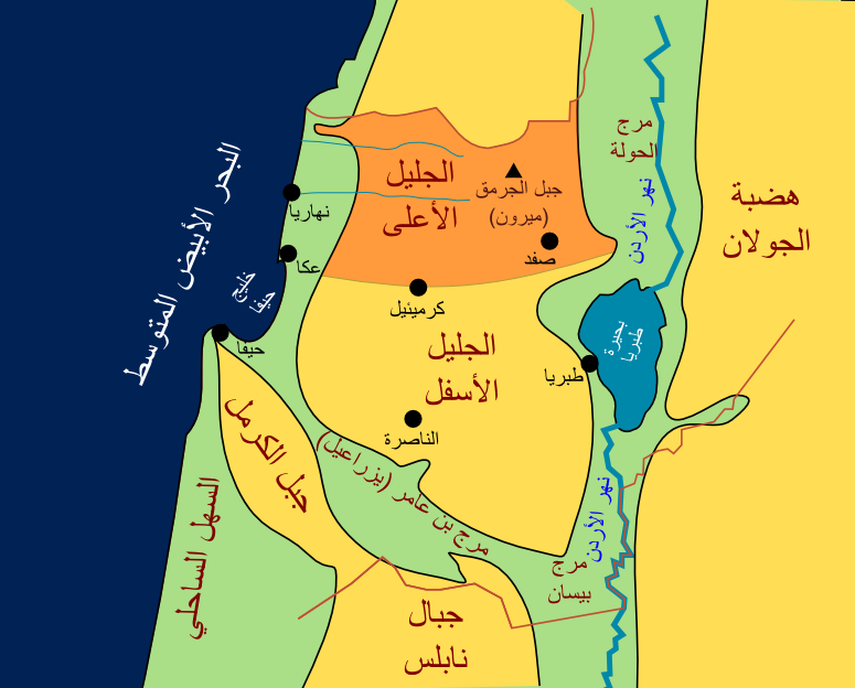 Lower Galilee